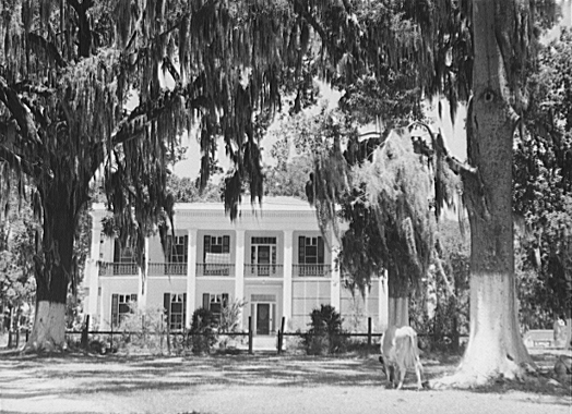 Old Jackson Plantation home, owned by a sugarcane planter. Schriever, Louisiana, June 1940. Annotation on file print identifies plantation as the Ducros plantation.